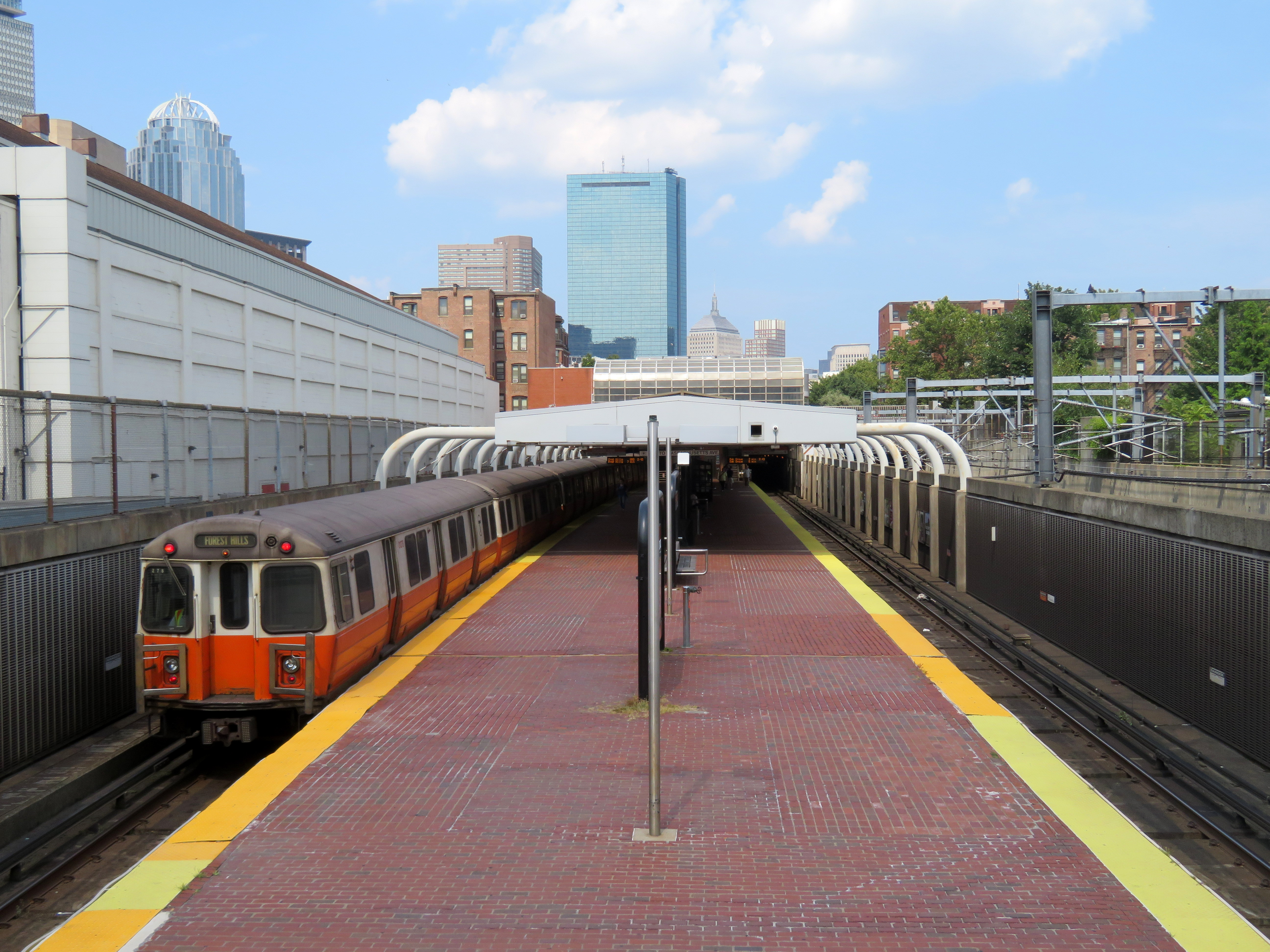 An outbound train at Massachusetts Avenue station in July 2019